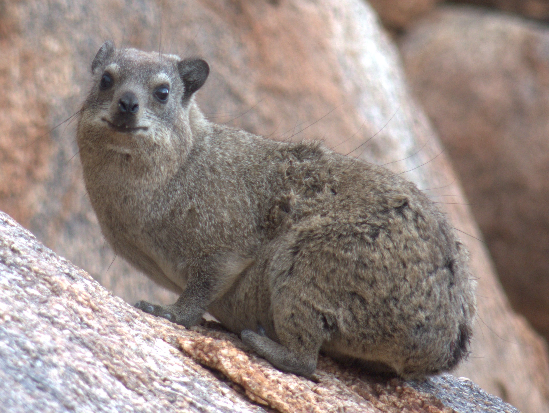 Wild Rock Dassie, living in the rocks near the reception of Gondwana Canyon Village